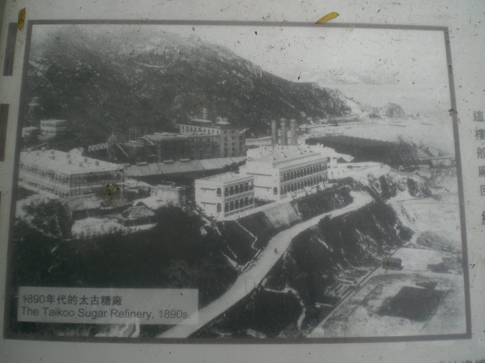 鰂魚涌 林邊樓